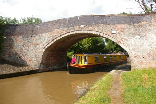 A narrowboat on the Shropshire Union Canal passing under Bremilow's bridge at Barbridge, Cheshire